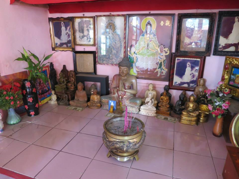 Chinese temple in Dili